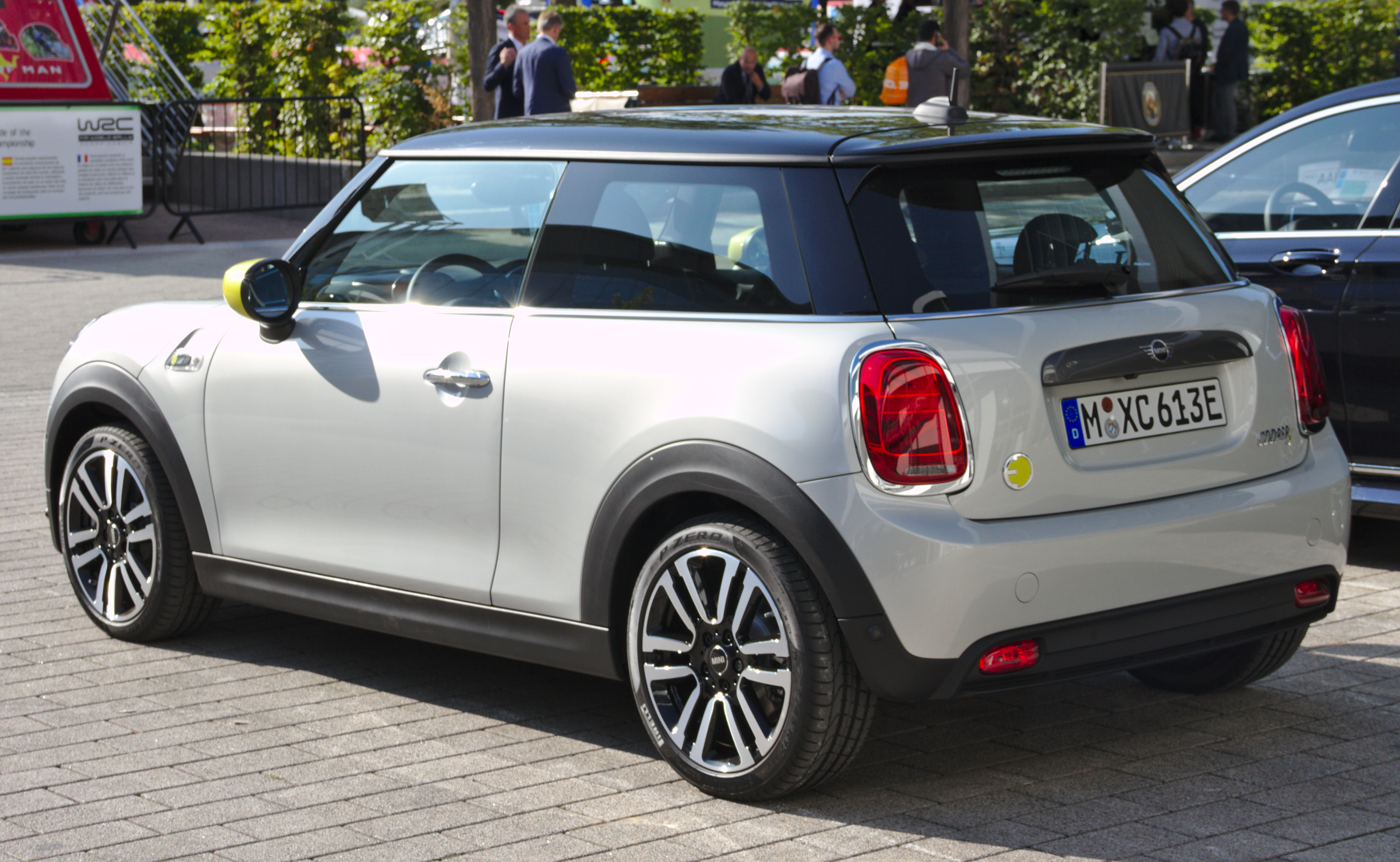 Mini_Hatch_(F56)_Electric at IAA 2019